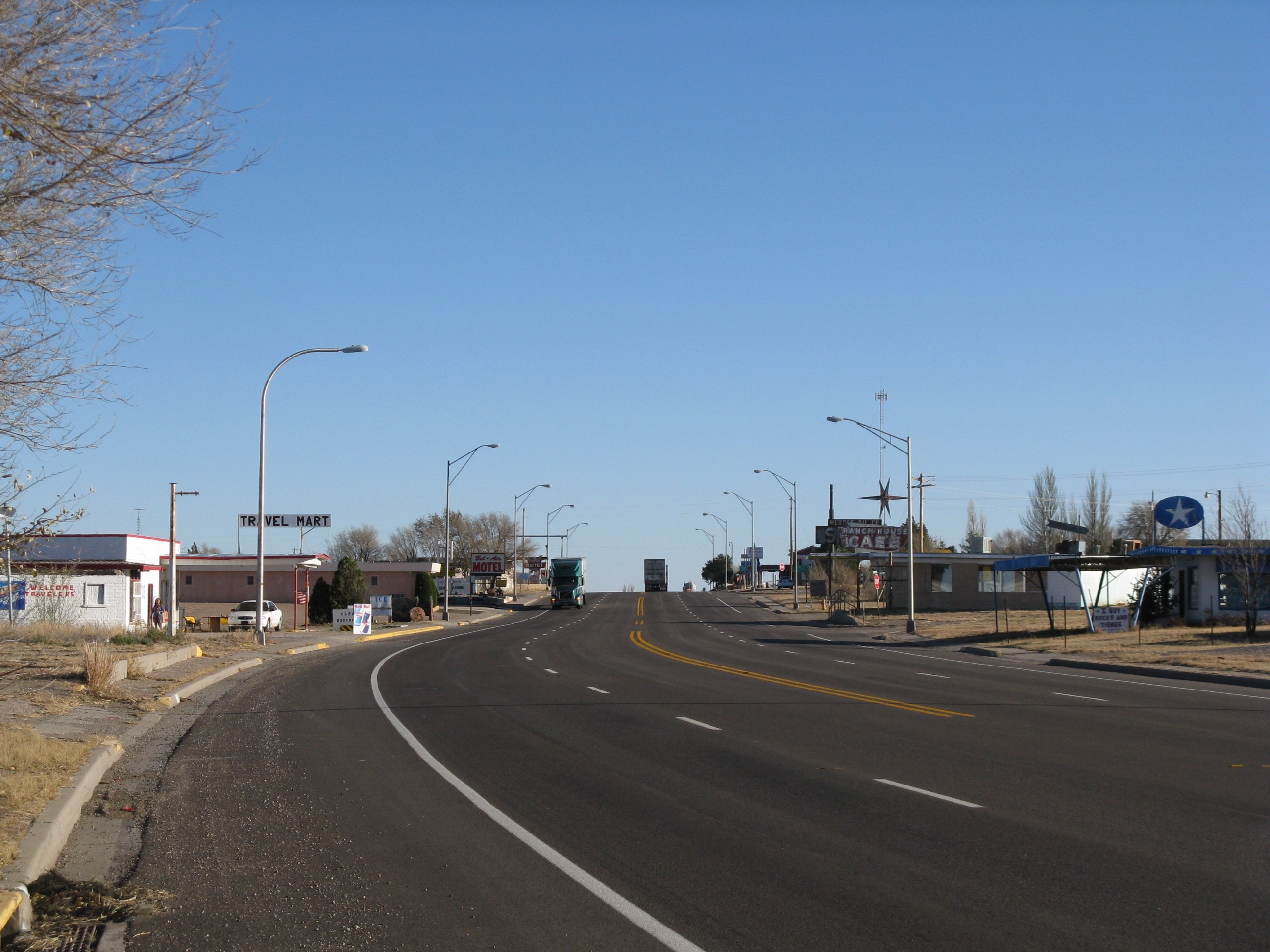 8th Street, Vaughn New Mexico, November 2009 - This is also US Routes 54, 60 and 285 through this stretch